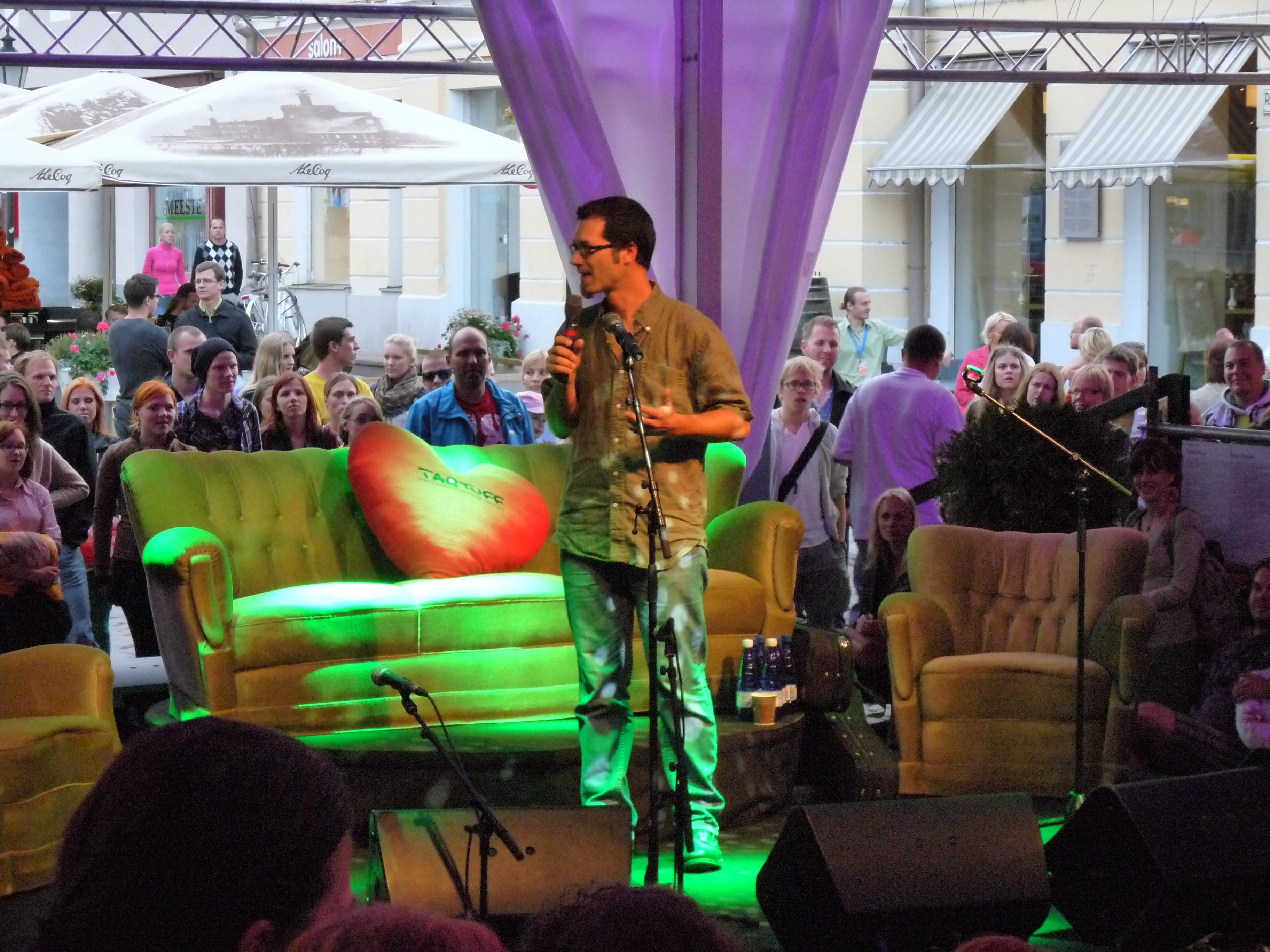 American-Estonian stand-up comedian Stewart Johnson performing on the film festival tARTuFF in Tartu, on Raekoja plats, on August 9, 2012. Photo: User:Oop.